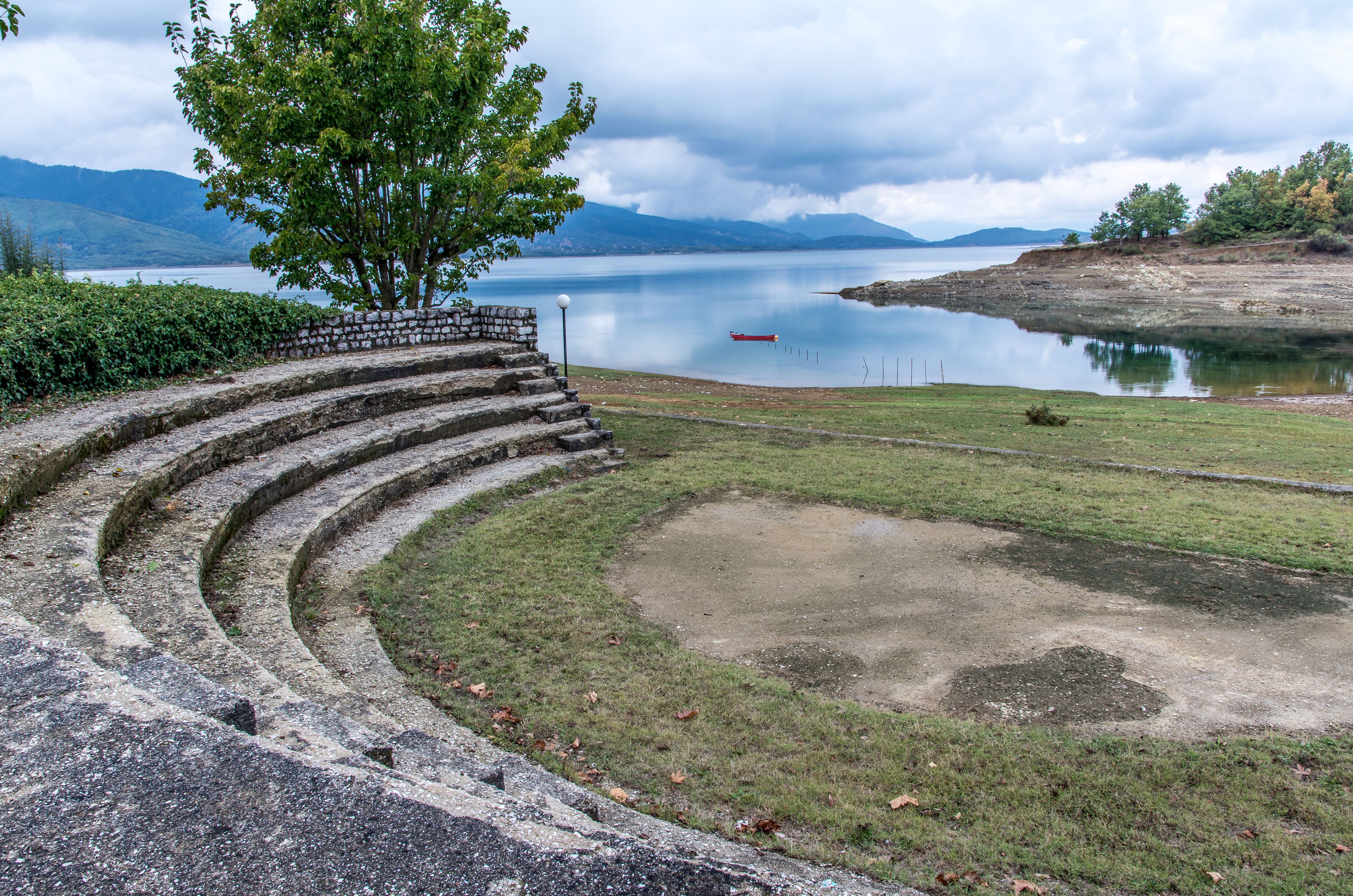 View of Plastiras Lake (alternative names: Tavropos Lake, Megdovas Lake), Karditsa Prefecture, Greece. The foto was taken from the area of Plaz Lamperou. This is a photography of Natura 2000 protected area with ID GR1410001